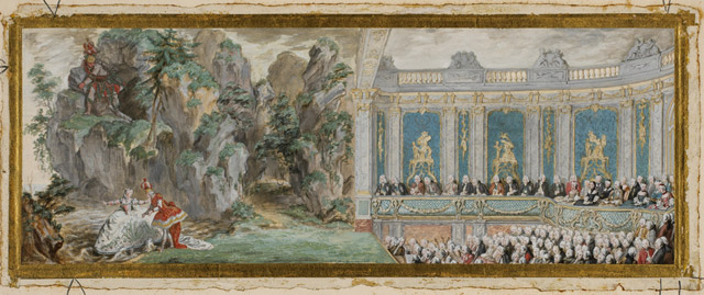 Marquise de Pompadour in a Scene from "Acis et Galathée"